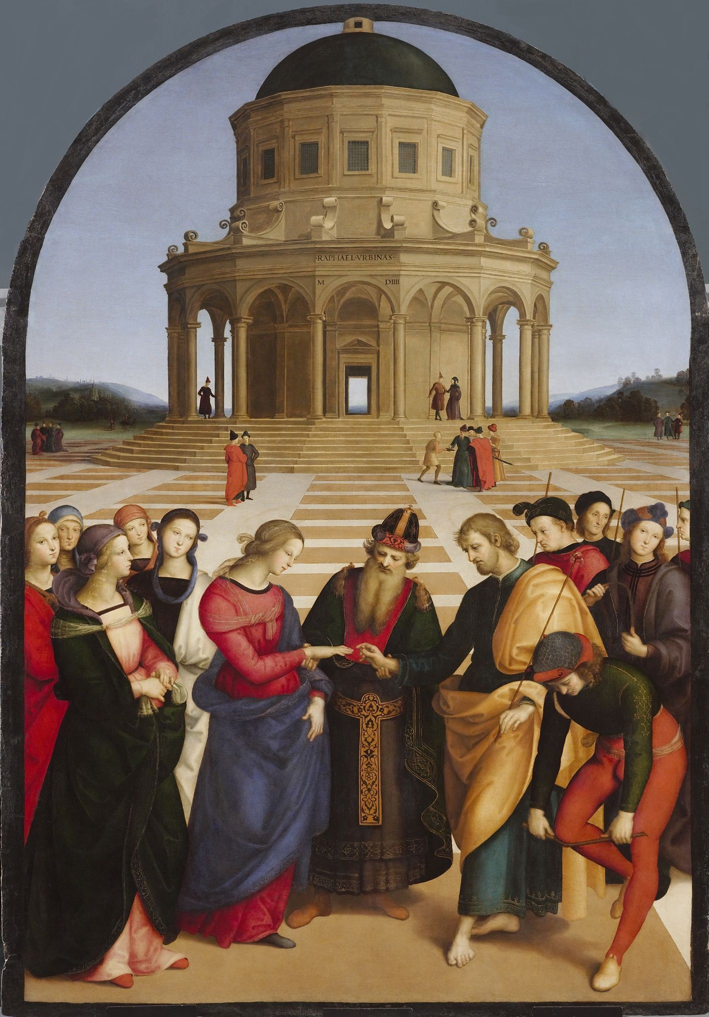 Spozalizio (The Engagement of Virgin Mary). Oil on roundheaded panel, 170 x 117 cm. Pinacoteca di Brera, Milan